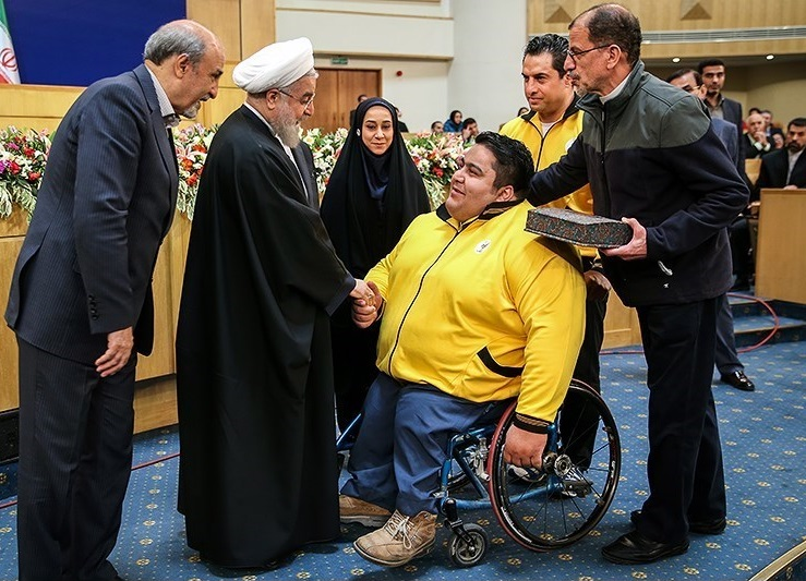 Iranian president Hassan Rouhani in the medalists magnification congress